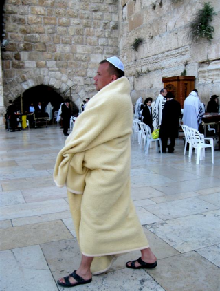 Jerusalem syndrome